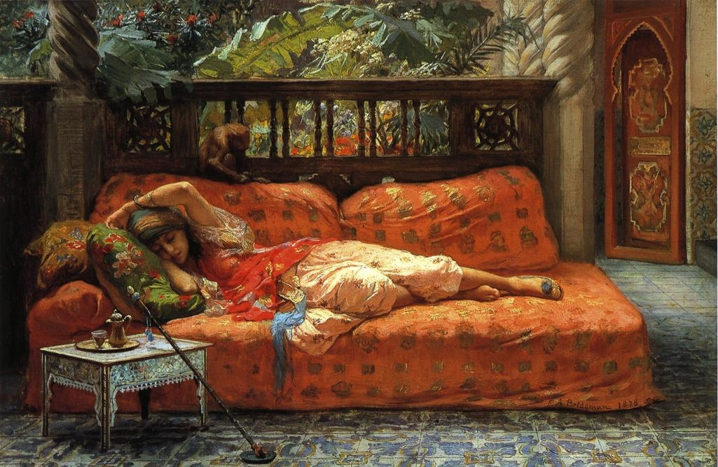 The Siësta